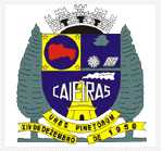 Caieiras Coats of arms